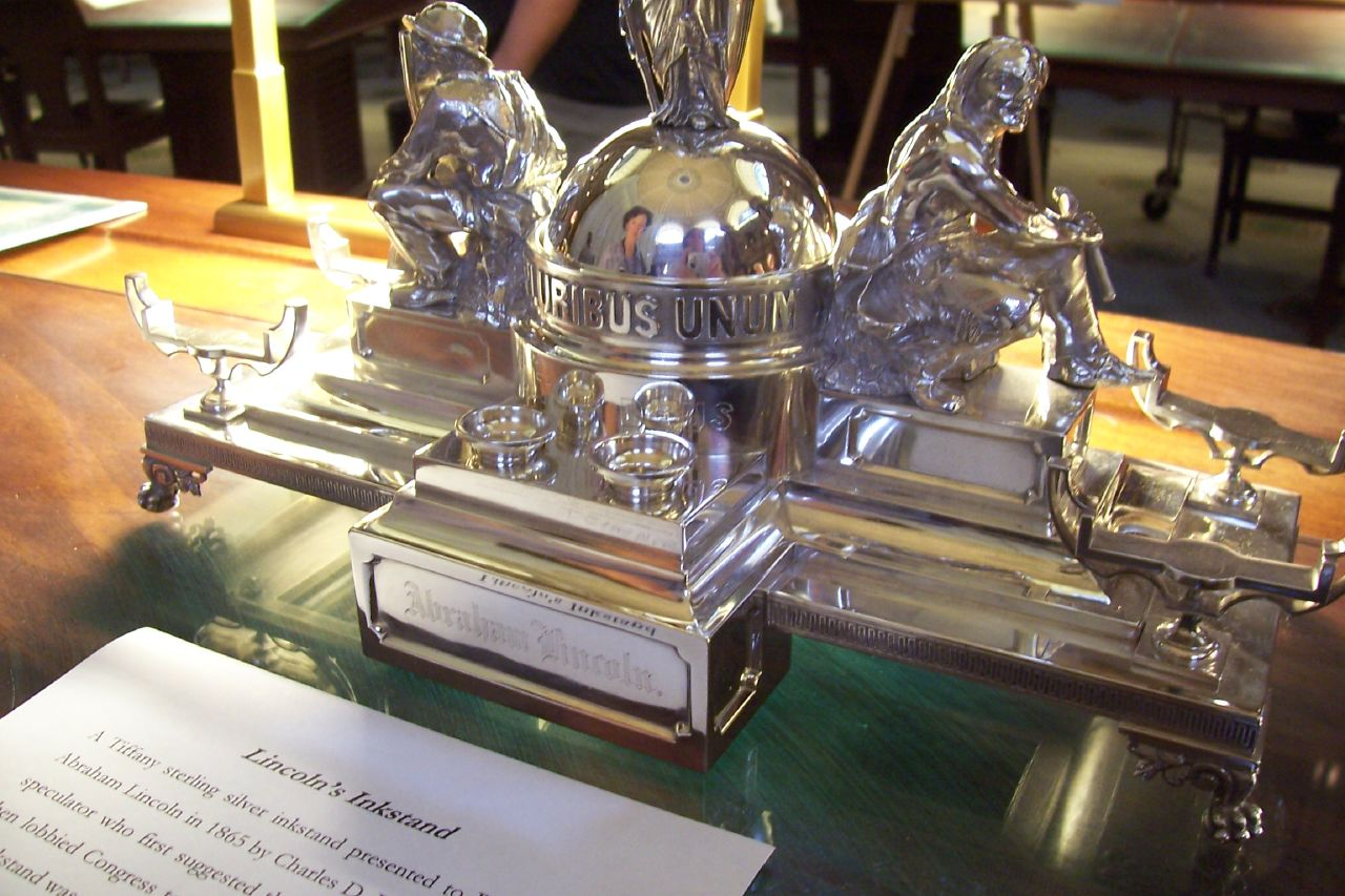 Lincoln's Inkstand - a Tiffany sterling silver Inkstand